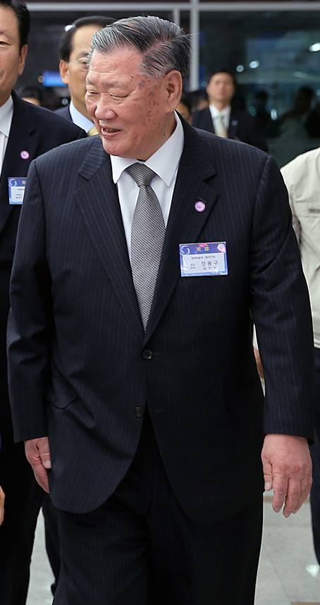 President Park Geun-hye’s state visit to China